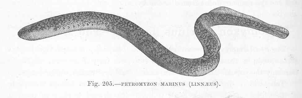 Petromyzon marinus (Linnaeus) Subject: Sea lamprey, Petromyzon Tag: Fish